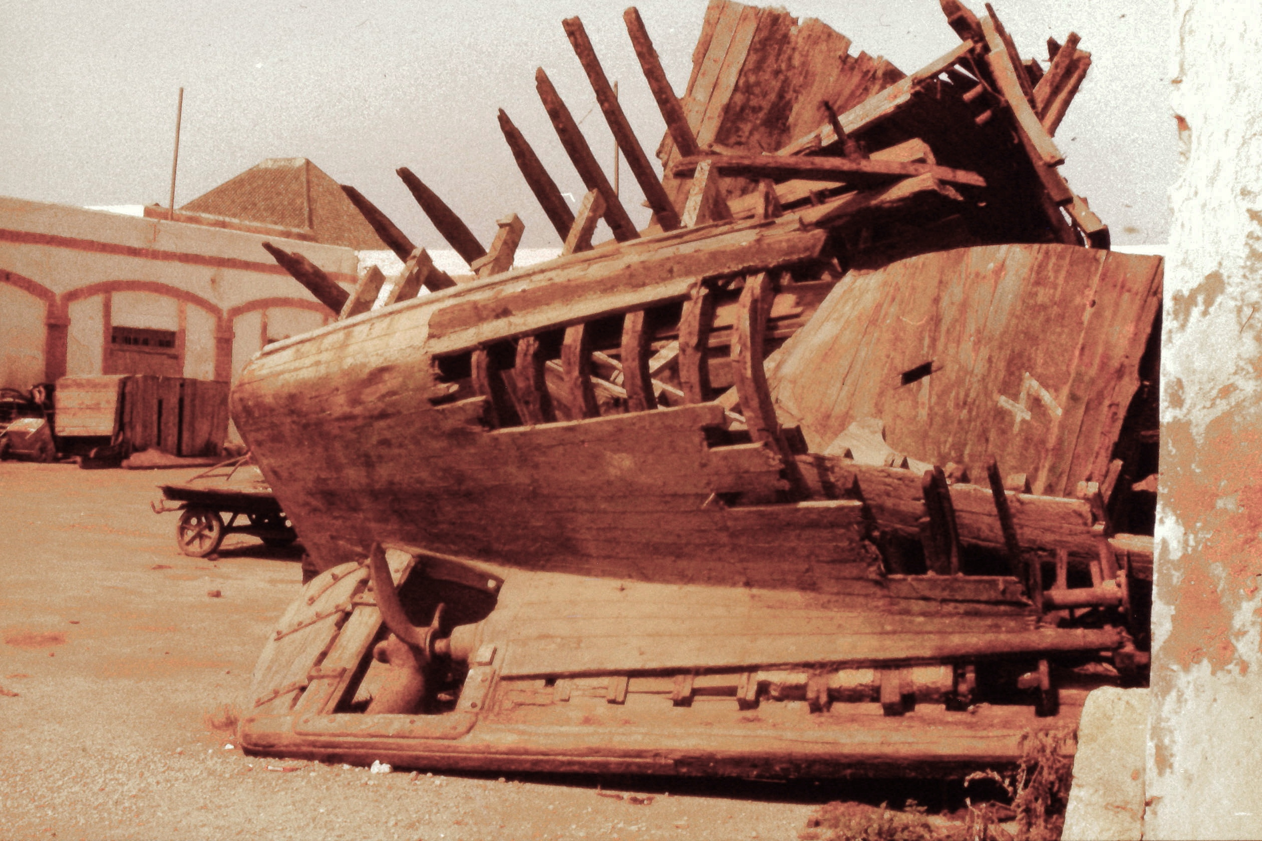 What is left of a fishing boat, Morocco 1980